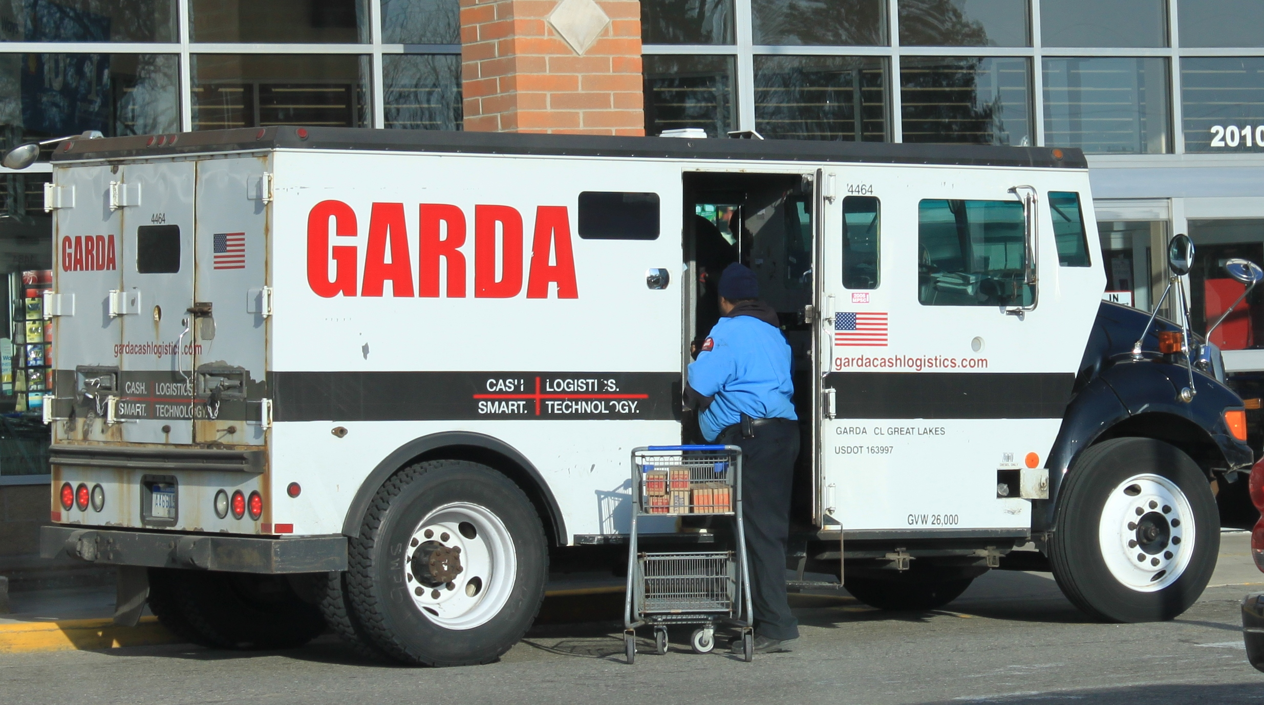 Garda armored car at Kroger store at 2010 Whittaker Road, Ypsilanti Township, Michigan